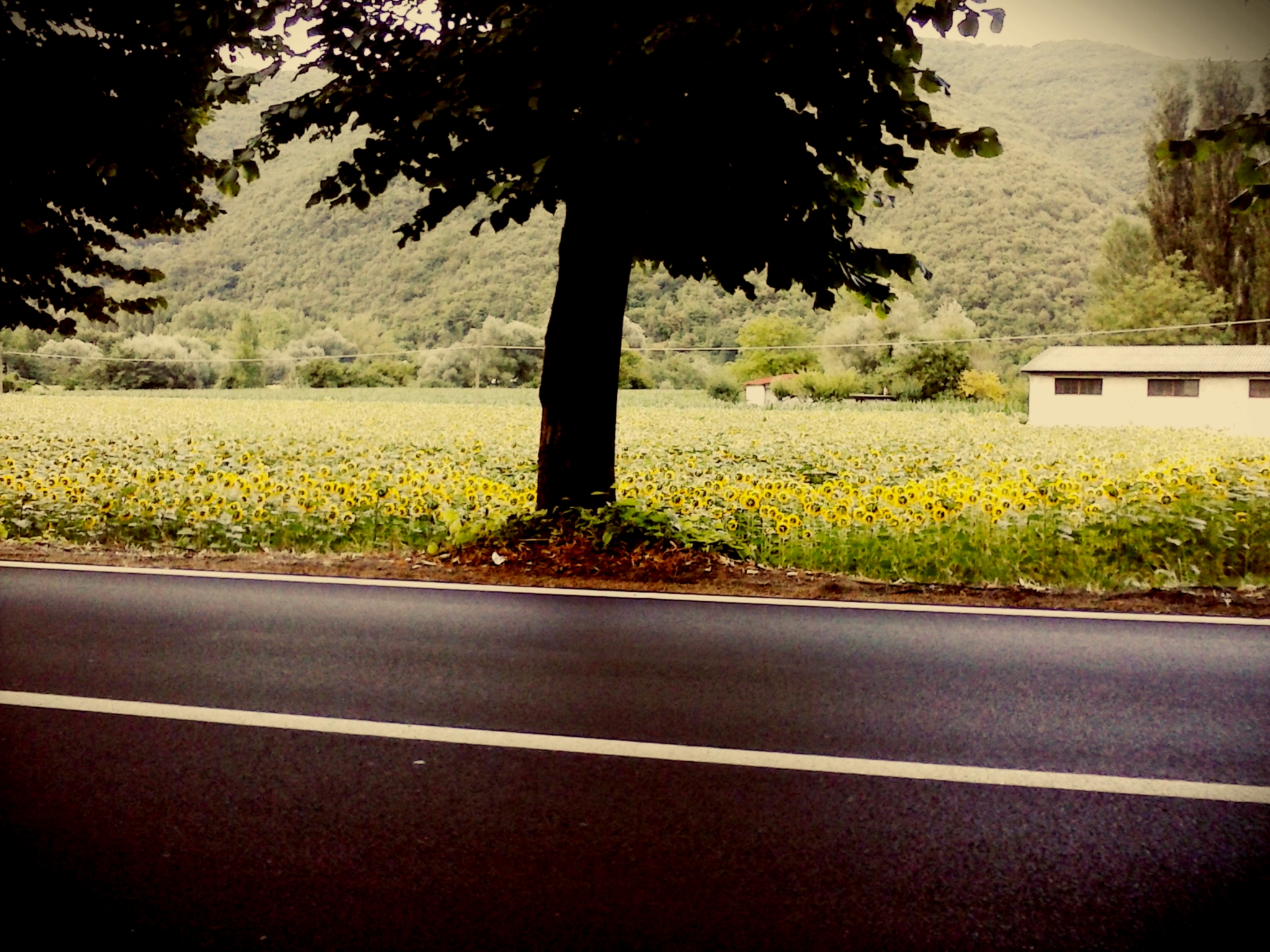 The old route of State Road n. 4 "Via Salaria" soon after the village of Maglianello Basso, near Rieti (Italy), route replaced in 2003 by a double carriageway road under the mountain (Colle Giardino tunnel) and since then renamed Nuova Strada Anas 265 (NSA 265) ex SS4. Behind the trees, the Turano valley and a field cultivated with sunflowers.